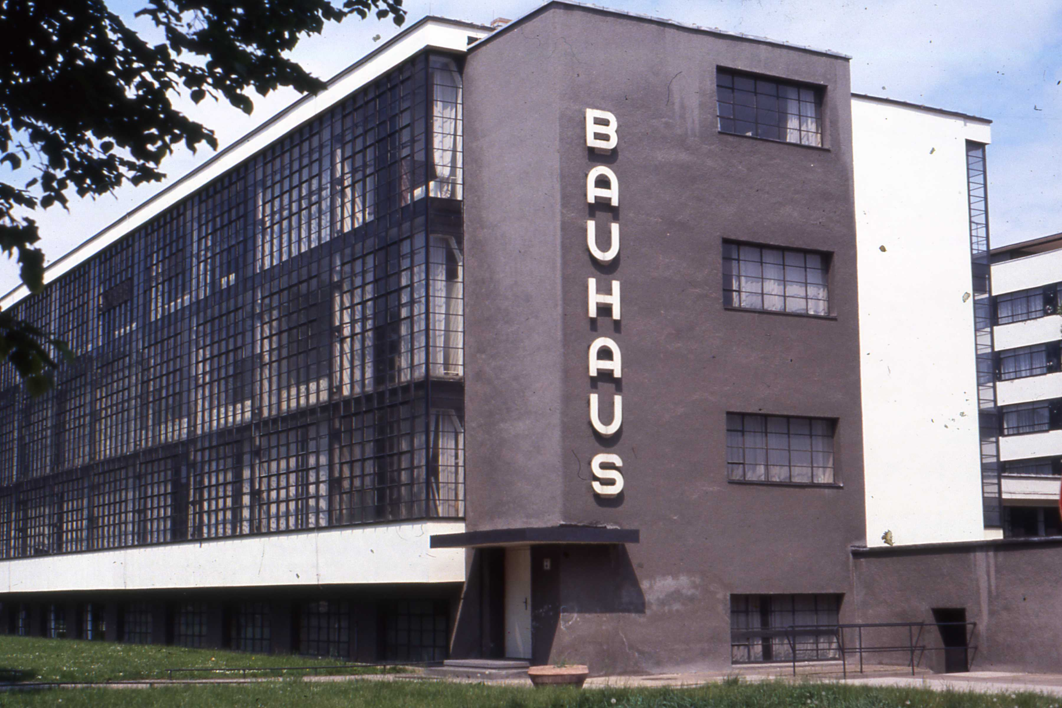 Cleaned up contemporary view here Staatliches Bauhaus - typography by Herbert Bayer. Wikipedia page here The Bauhaus existed in Dessau between 1925 and 1932, having been forced out of Weimar. The architect was the first director of Dessau's Bauhaus, Walter Gropius, who was followed by Hannes Meyer and Ludwig Mies van der Rohe.